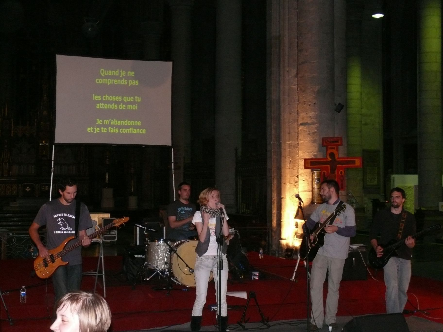 Concert of CX FLOOD at Saint-Maurice's church, in Lille (Nord, France).